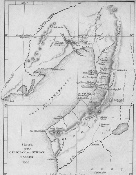 Sketch of the Cilician and Syrian Passes, 1838.